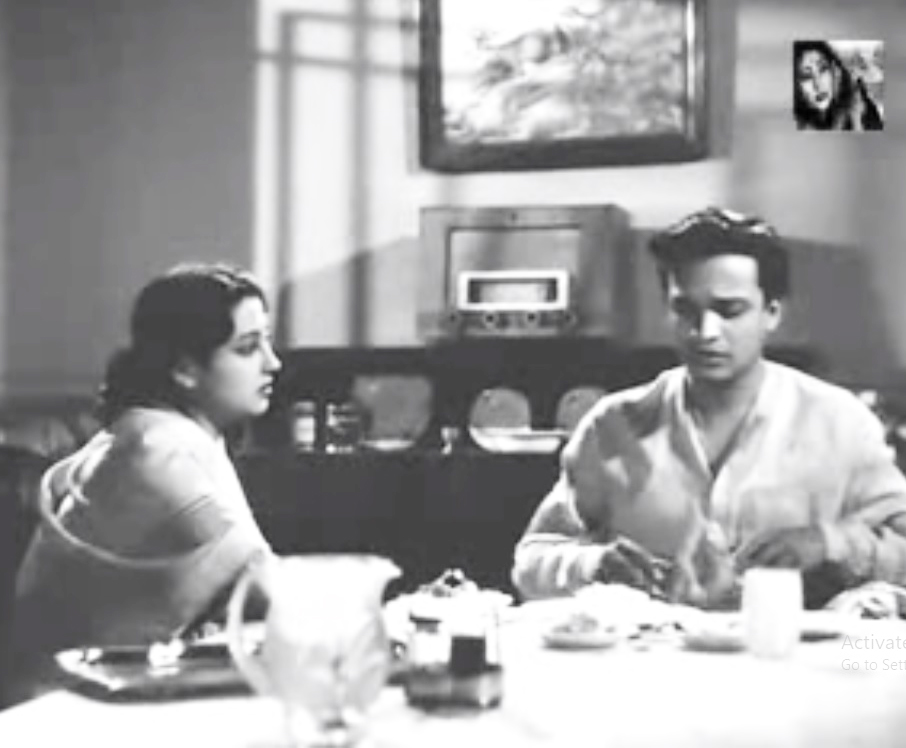 Scene in Shap Mochan with Uttam Suchitra